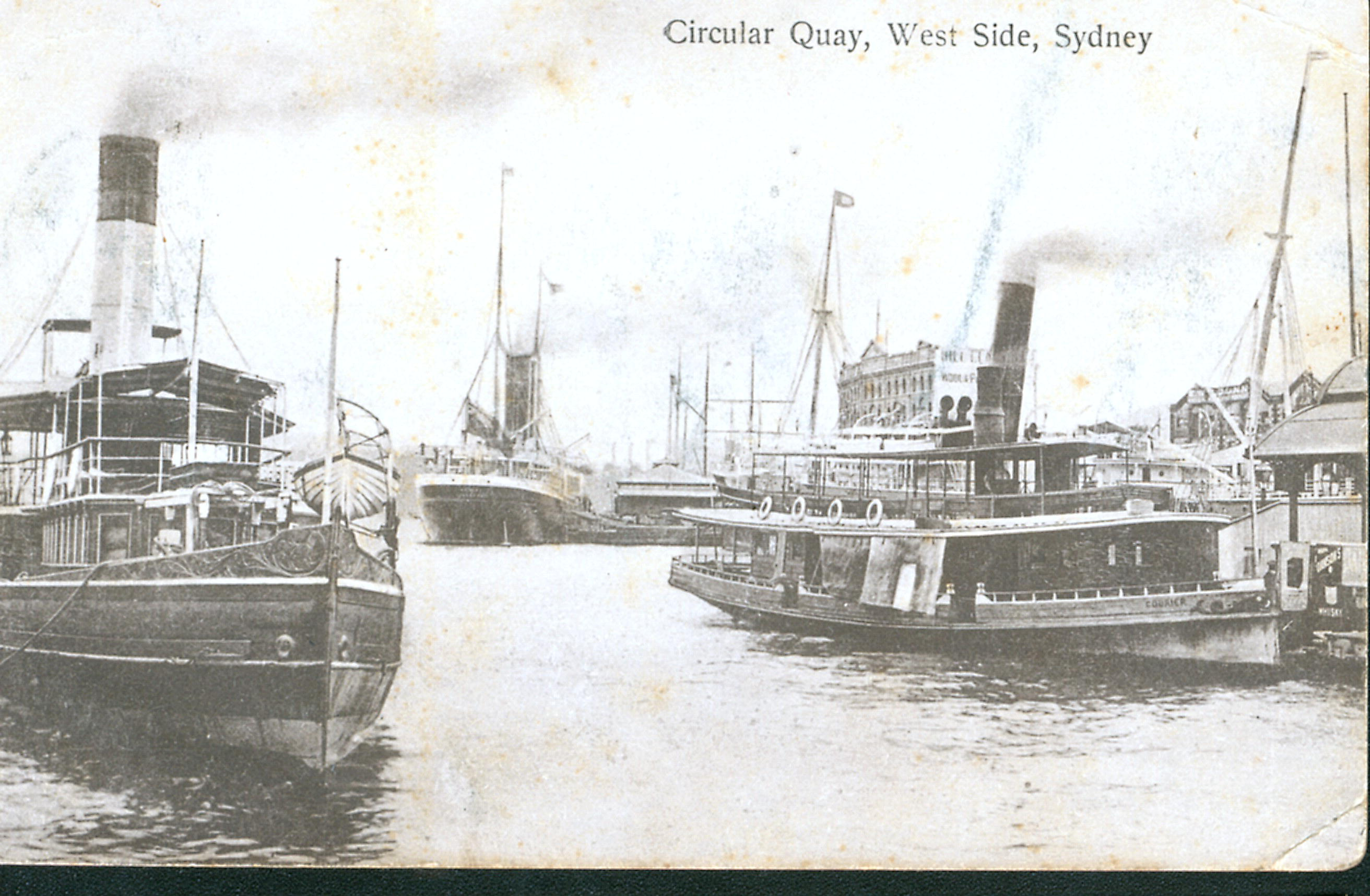 Sydney Ferries BRIGHTSIDE (1865-1909) COURIER (1887 - 1930). Graeme Andrews, BRIGHTSIDE and COURIER in Circular Quay, after 1887. postcard. (01/01/1900 - 31/12/1900), [A-00075617]. City of Sydney Archives, accessed 25 Jun 2020